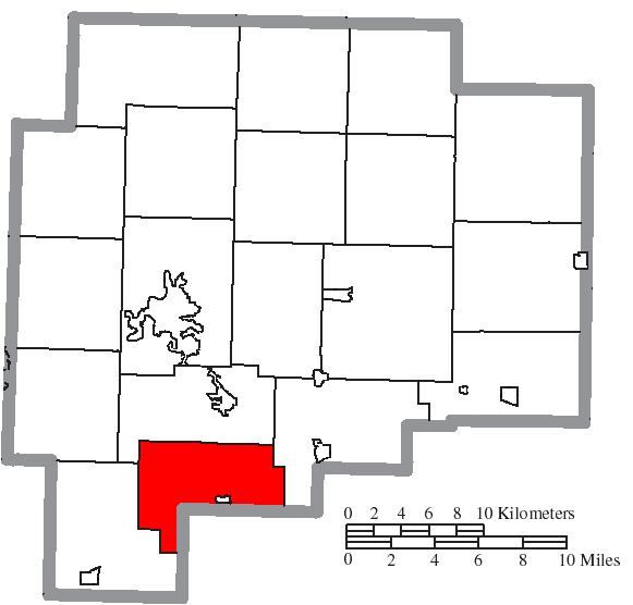 Map of the municipal and township boundaries of Guernsey County, Ohio, United States, as of the 2000 census, with the location of Valley Township highlighted. Township borders are shown only in unincorporated areas in order to differentiate incorporated and unincorporated areas more clearly.